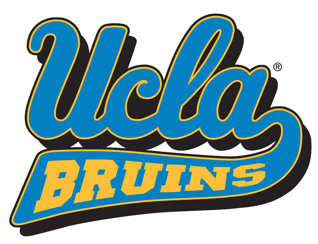 Script logo for UCLA Bruins as of 2013